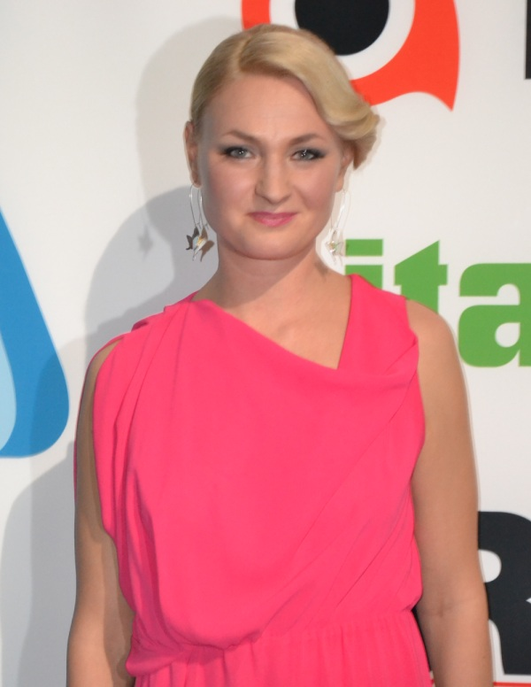 Ria Kataja in 2013 Jussi Awards.